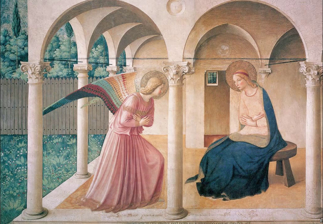 fresco cycle in San Marco, Florence: Annunciation